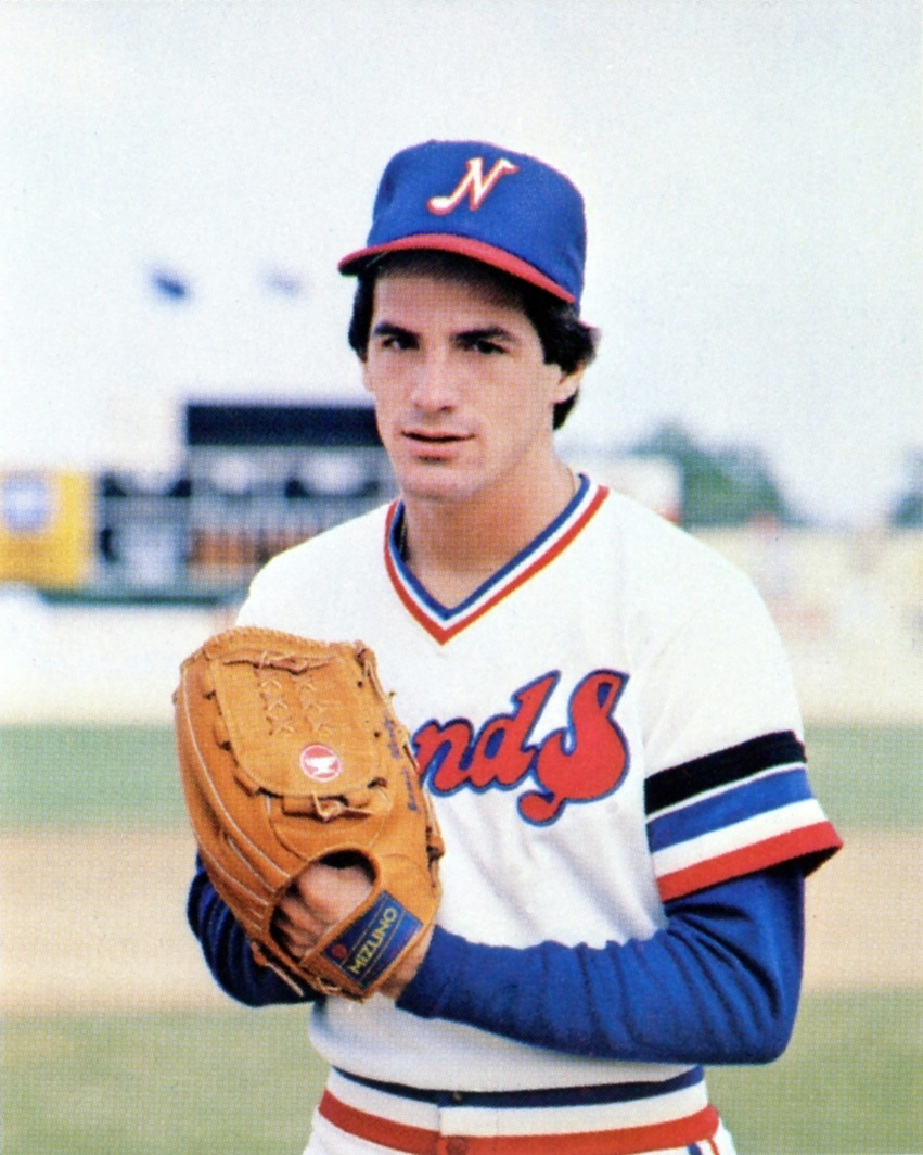 Pitcher Jamie Werly of the 1980 Nashville Sounds Minor League Baseball team of the Southern League